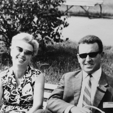 Mr and Mrs Mietelski in 1967 during the IAU General Assembly in Prague